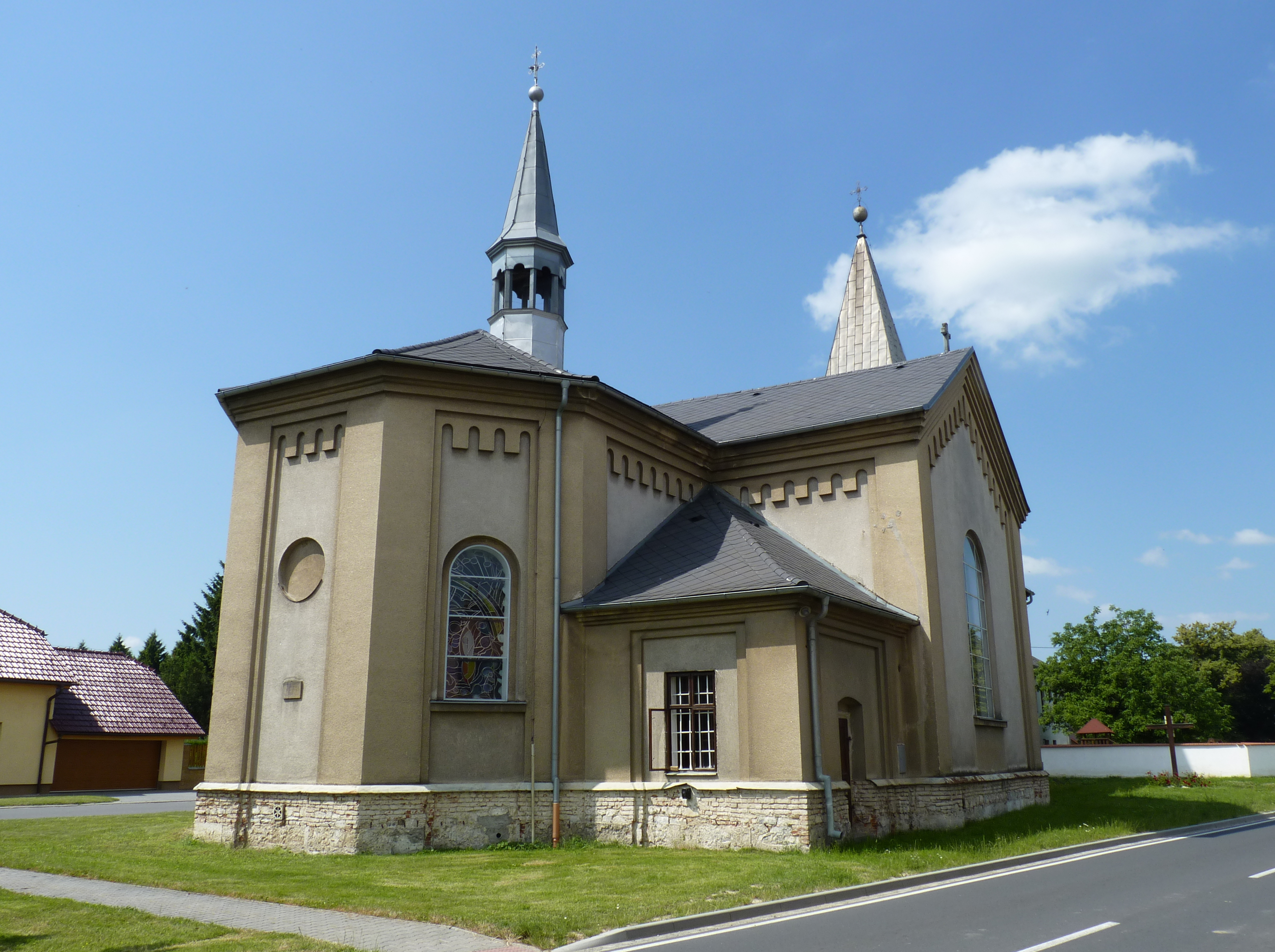 Troubky. Přerov District, Olomouc Region, Czech Republic